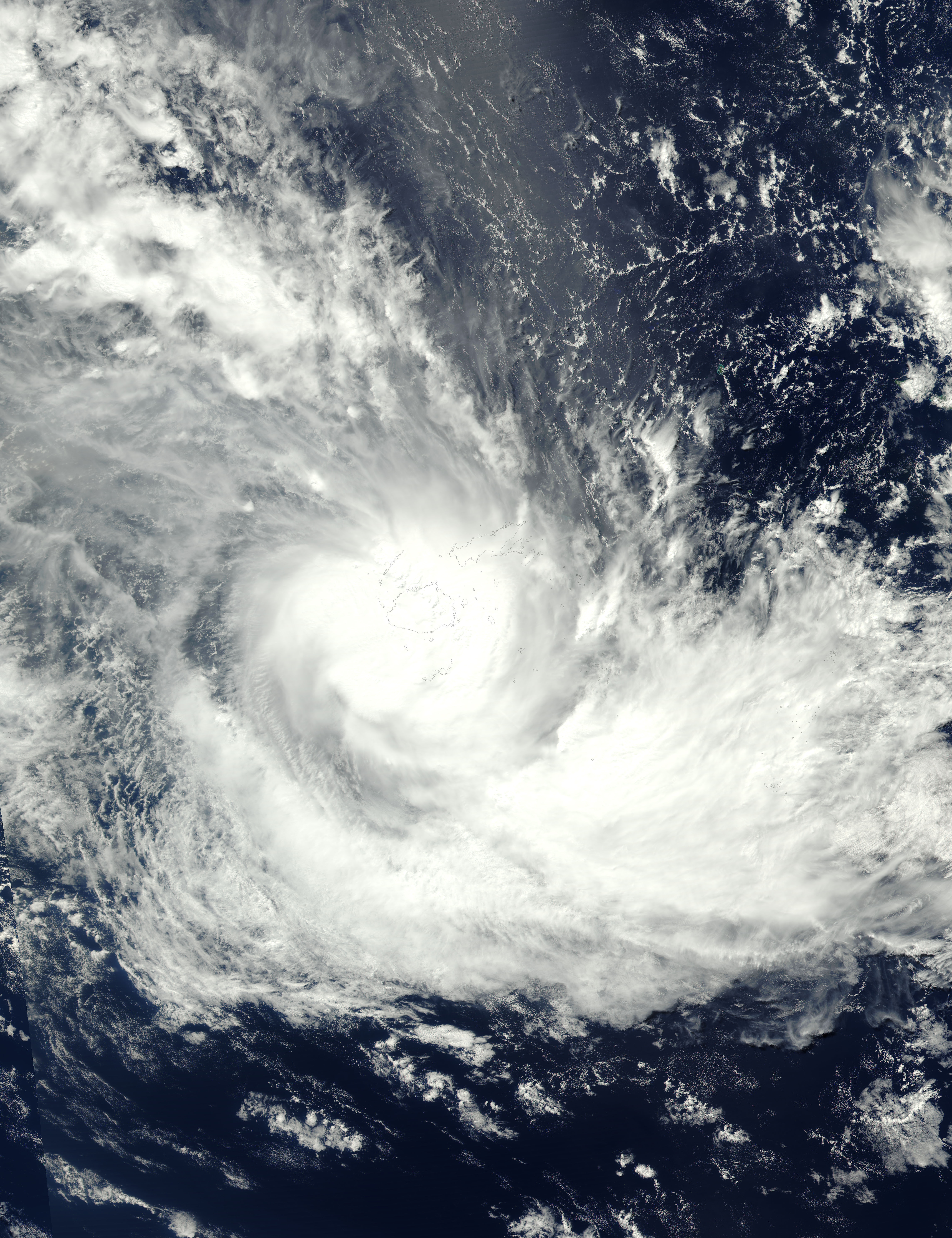 Severe Tropical Cyclone Keni over Fiji on April 10, 2018